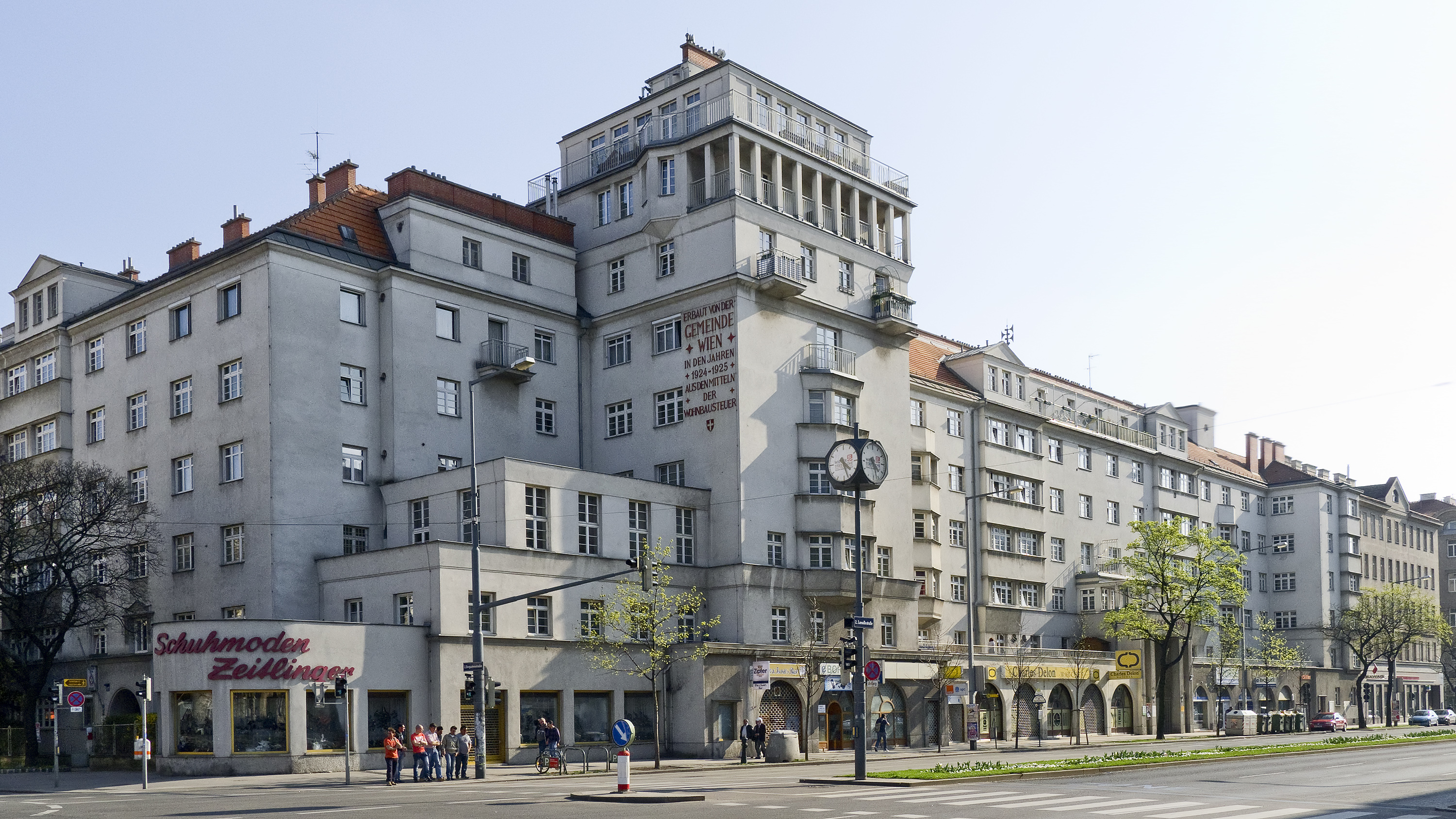 Residential building Lassalle-Hof at Lassallestraße 40, Vienna Leopoldstatdt